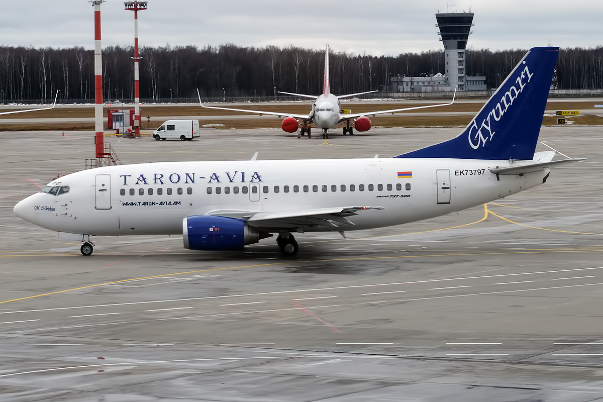 Taron-Avia, EK73797, Boeing 737-505